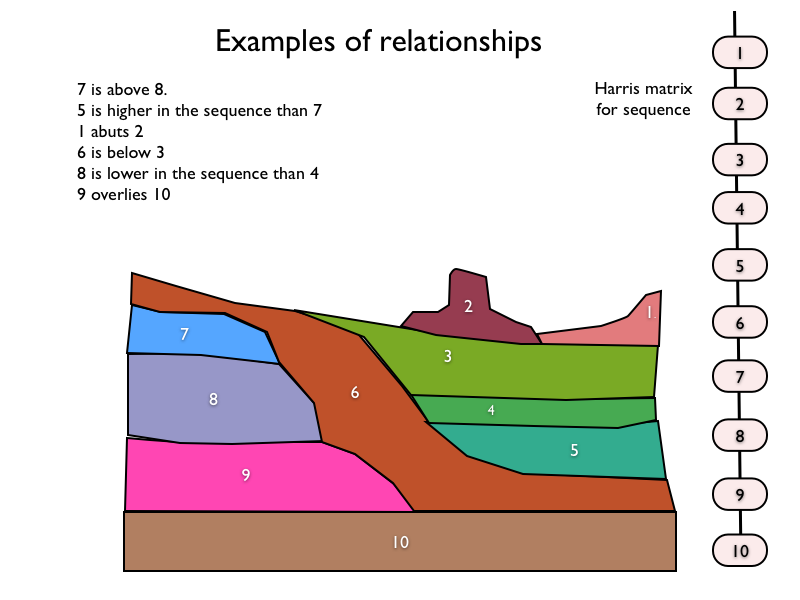 graphic